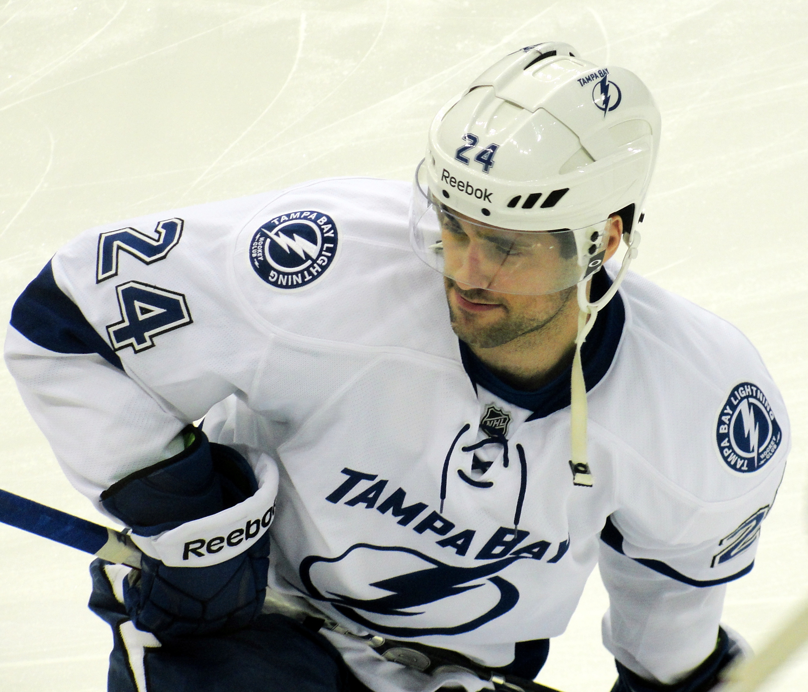 Tampa Bay Lightning forward Trevor Smith during a February 25, 2012 game against the Pittsburgh Penguins at Consol Energy Center in Pittsburgh, PA.